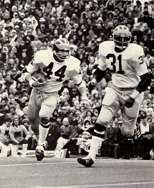 Photograph of Chuck Heater (No. 44, with ball) and Ed Shuttlesworth (No. 31, blocking)